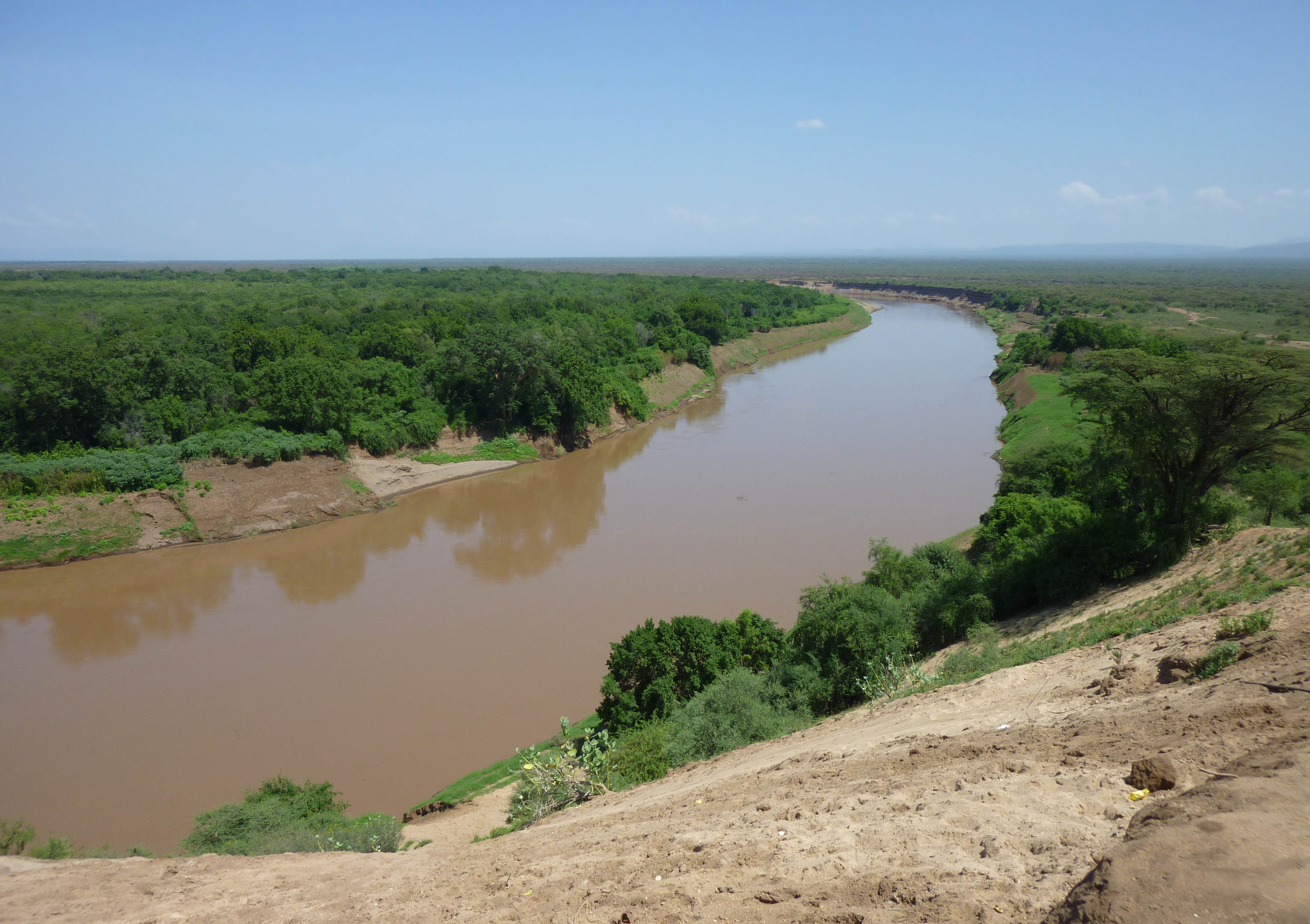 Omo River seen from the Karo village of Doose, Ethiopia